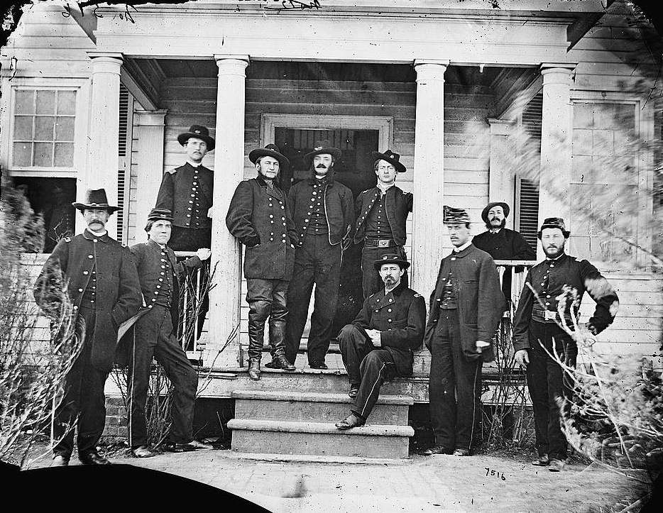 General Hugh Judson Kilpatrick, 3d Division, Cavalry Corps, and staff members on the porch of headquarters. Stevensburg, Va. Photograph from the main eastern theater of war, winter quarters at Brandy Station, December 1863-April 1864.